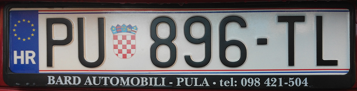 Croatian license plate. Code PU